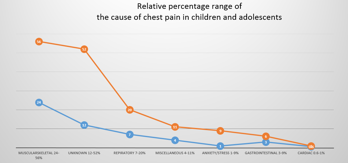 This is a graph of the percentages of the causes of chest pain in children and adolescents based upon